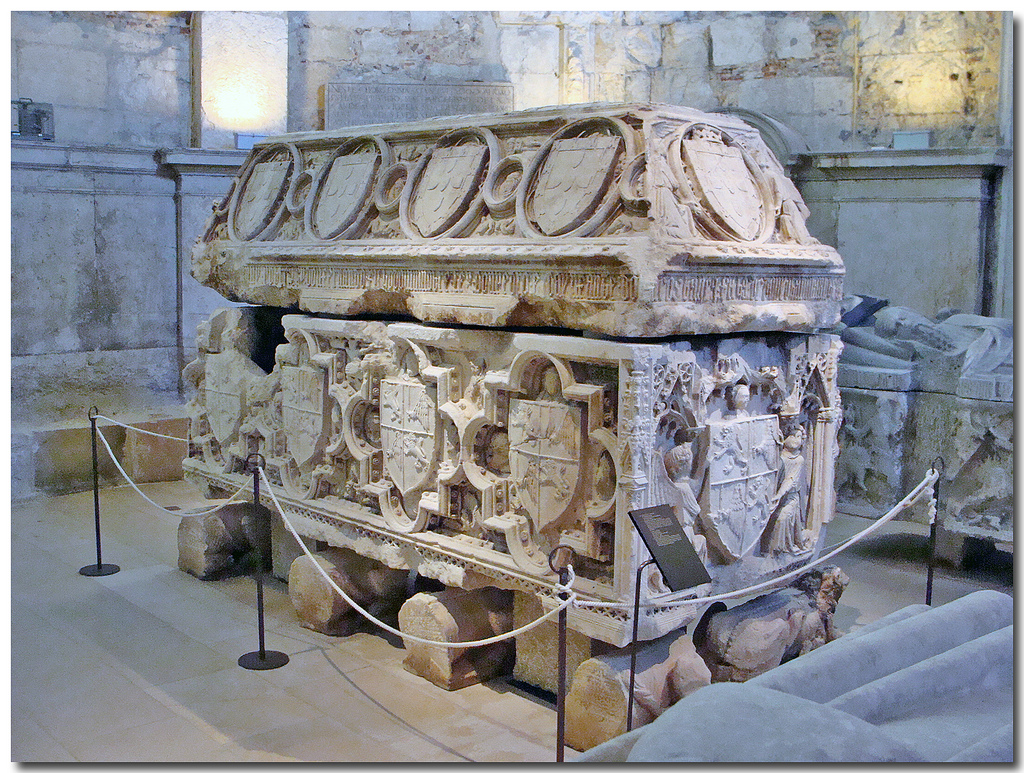 Tomb of King Fernando I of Portugal in the Carmo Archaeological Museum, Lisbon, Portugal